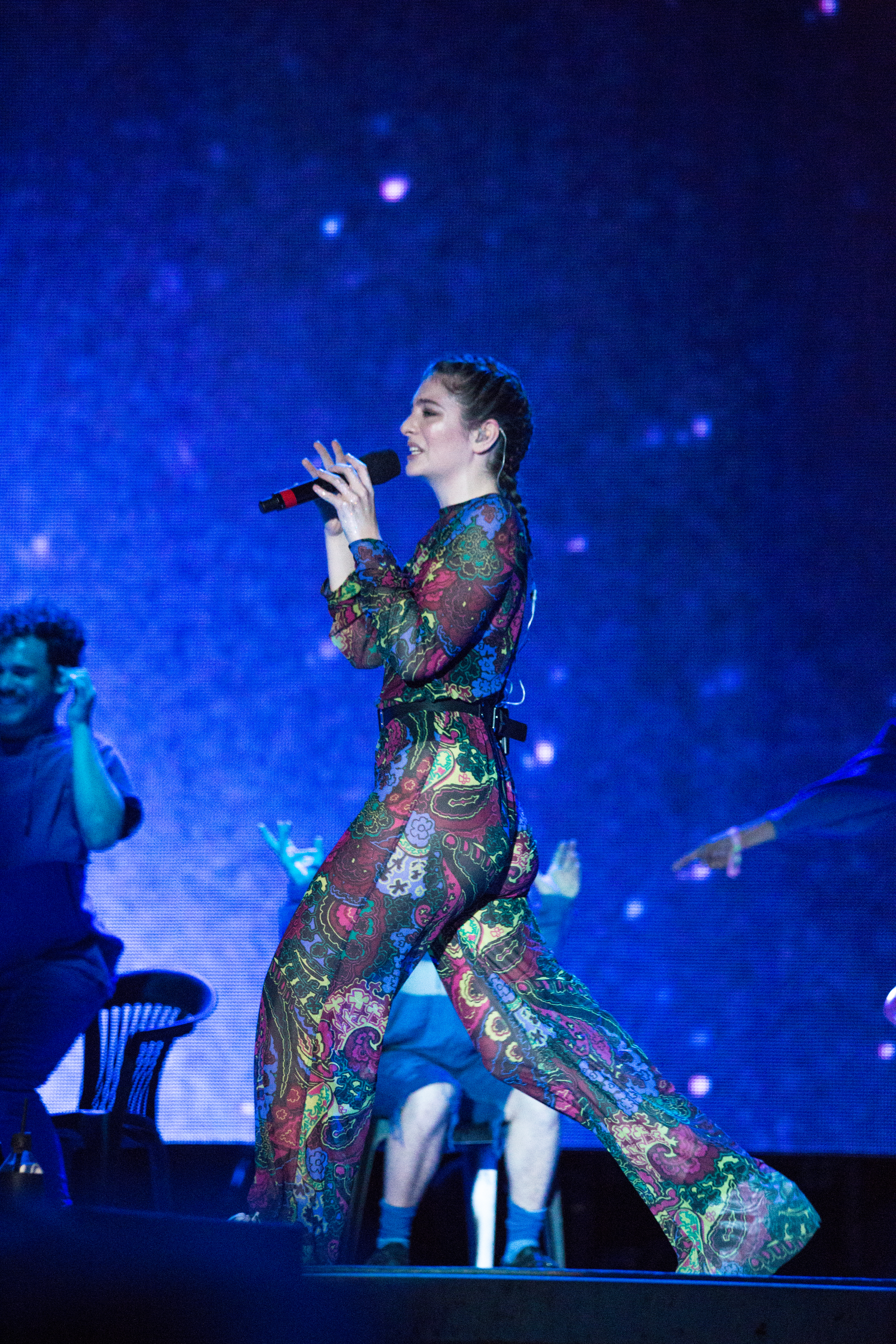 Lorde performs at the 2017 Bonnaroo Music & Arts Festival